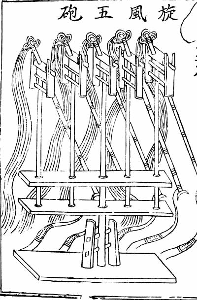 Xuanfengwupao (旋風五砲) from the Wujingzongyao. Five traction trebuchets.